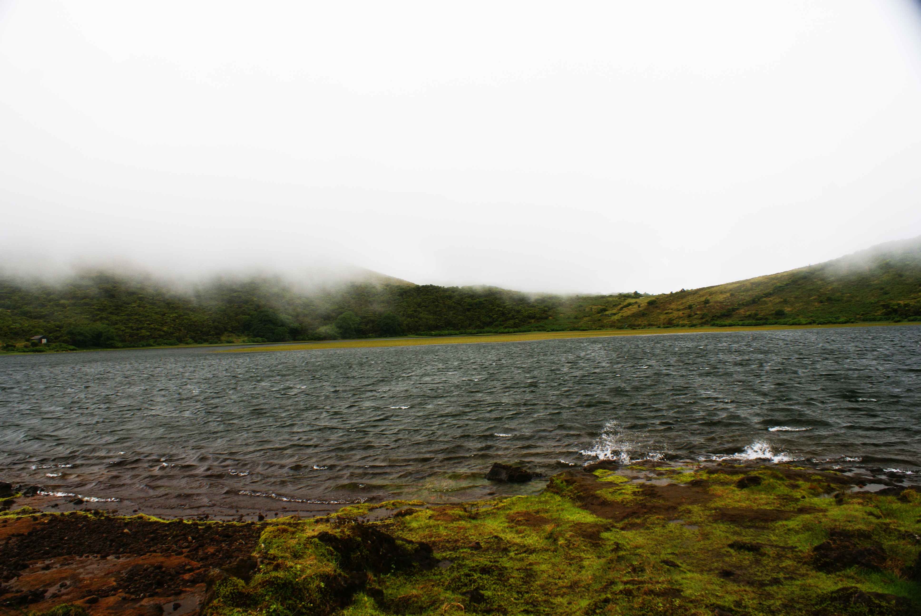 Lagoa do Landroal, partial vista, muncipality of Lajes do Pico, island of Pico, Azores (Portugal)